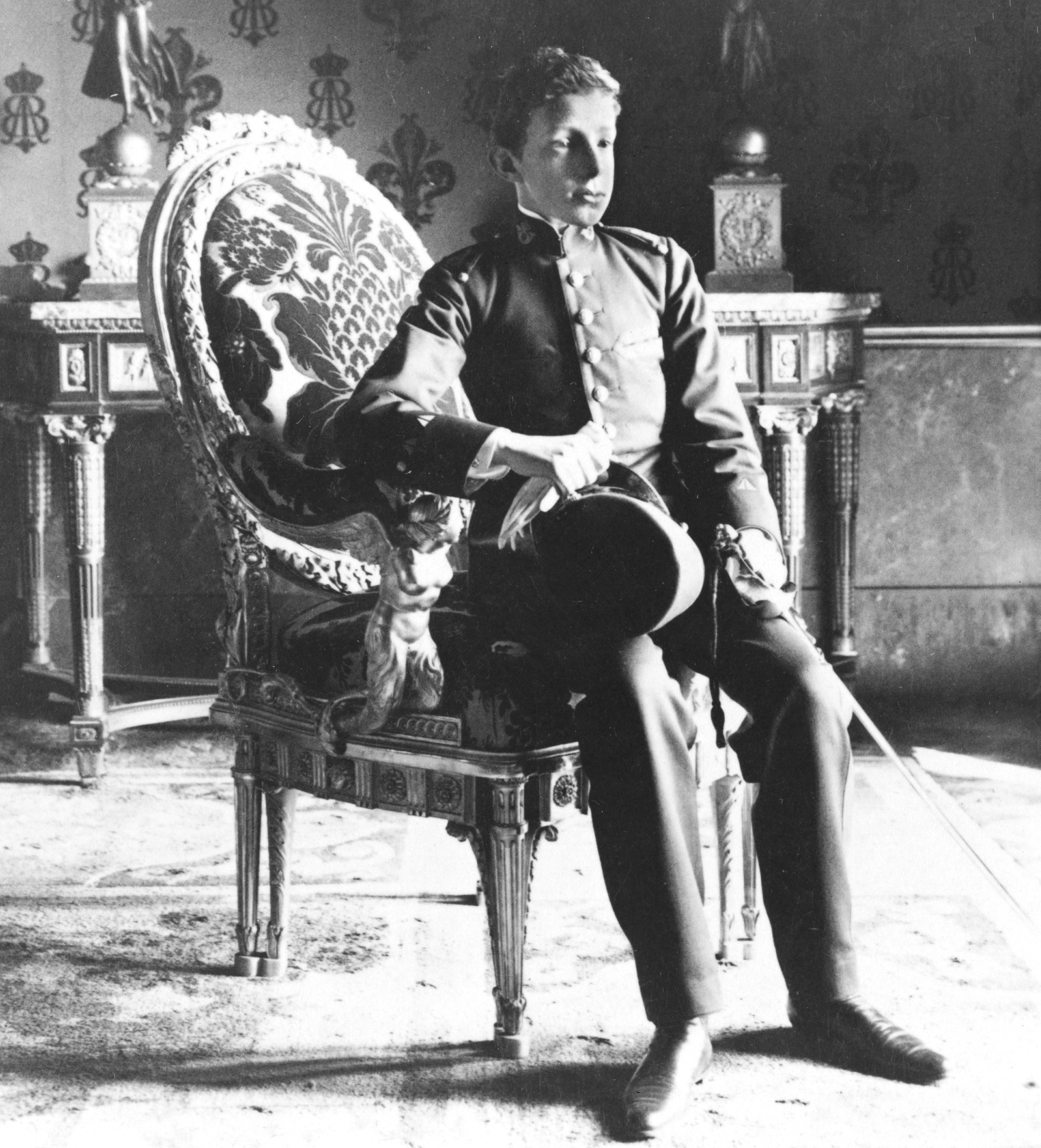 Alfonso XIII (1886–1941), King of Spain (1886–1931).